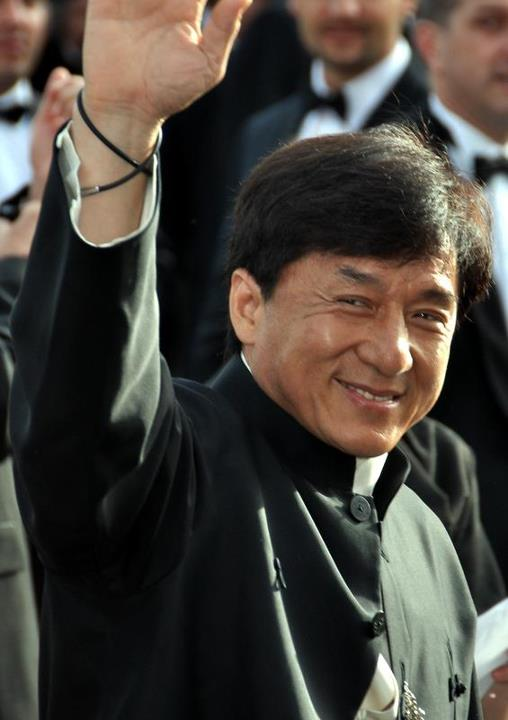 Jackie Chan at the Cannes film festival